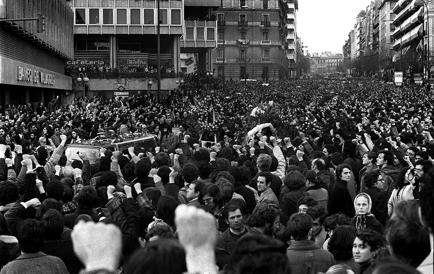 Between 50,000 and 100,000 people stood silently with fists raised during the procession of the hearses containing the bodies of three of the people killed during the Atocha massacre, Madrid.